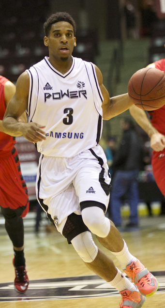 Mississauga Power player Jabs Newby drives into the paint.